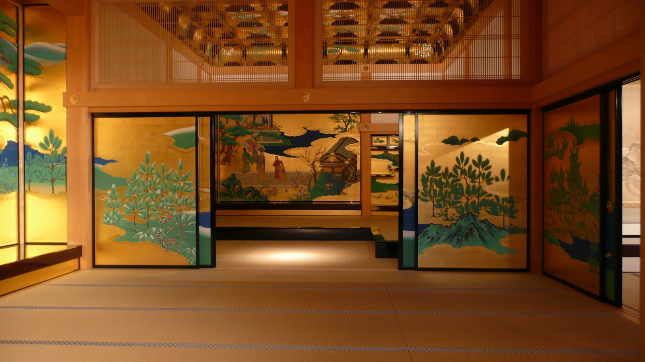 Kumamoto Castle - Honmaru Goten - Shoku no Ma